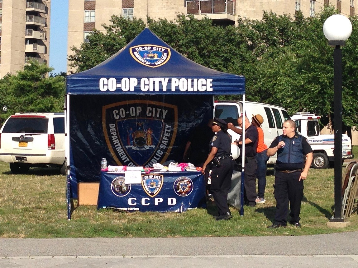 Co-op City Department of Public Safety at the 2017 Co-op City National Night Out on August 1st, 2017